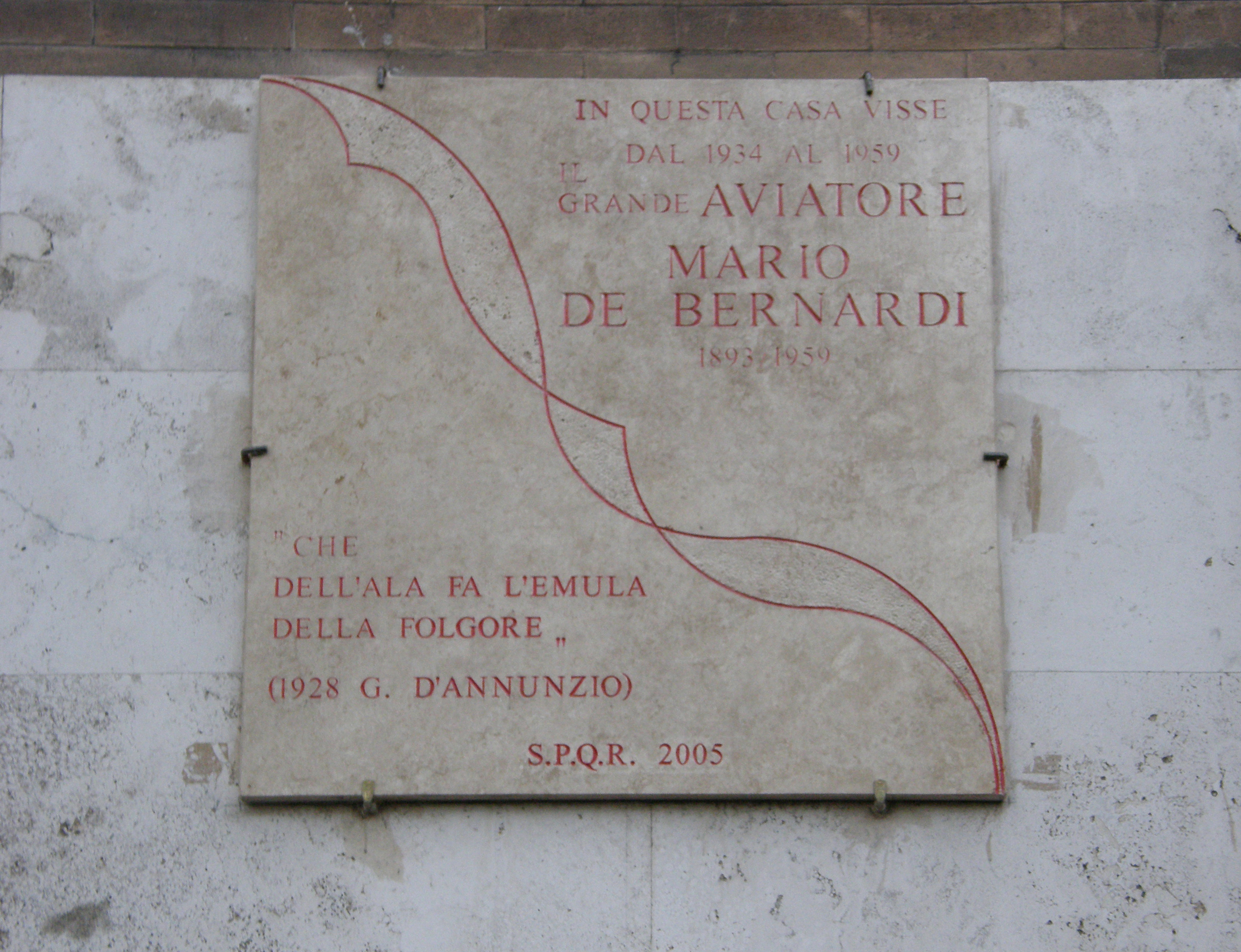 Rome, Italy - Plaque devoted to Mario de Bernardi, placed in Via Panama 86